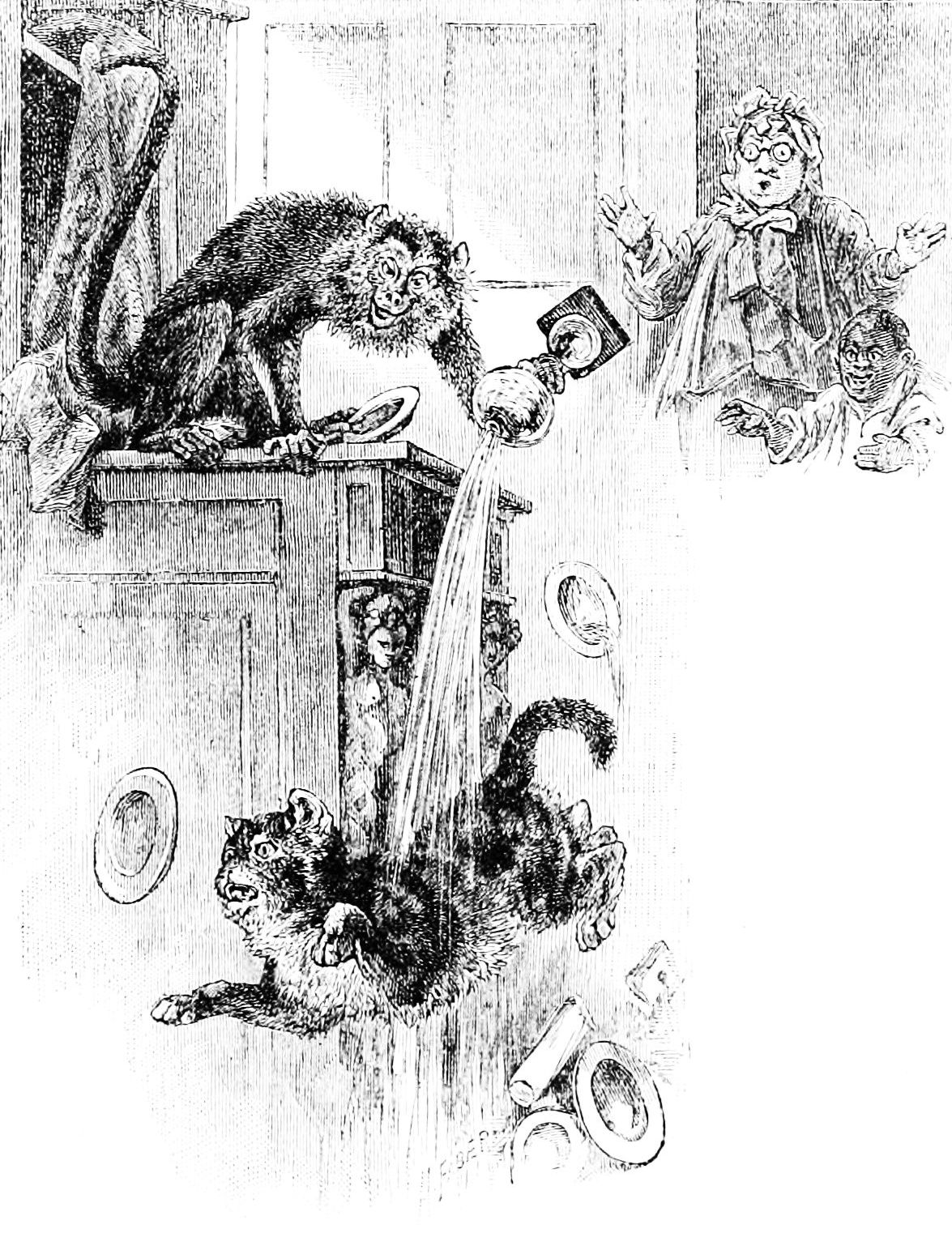 Total depravity - antics of wild monkeys